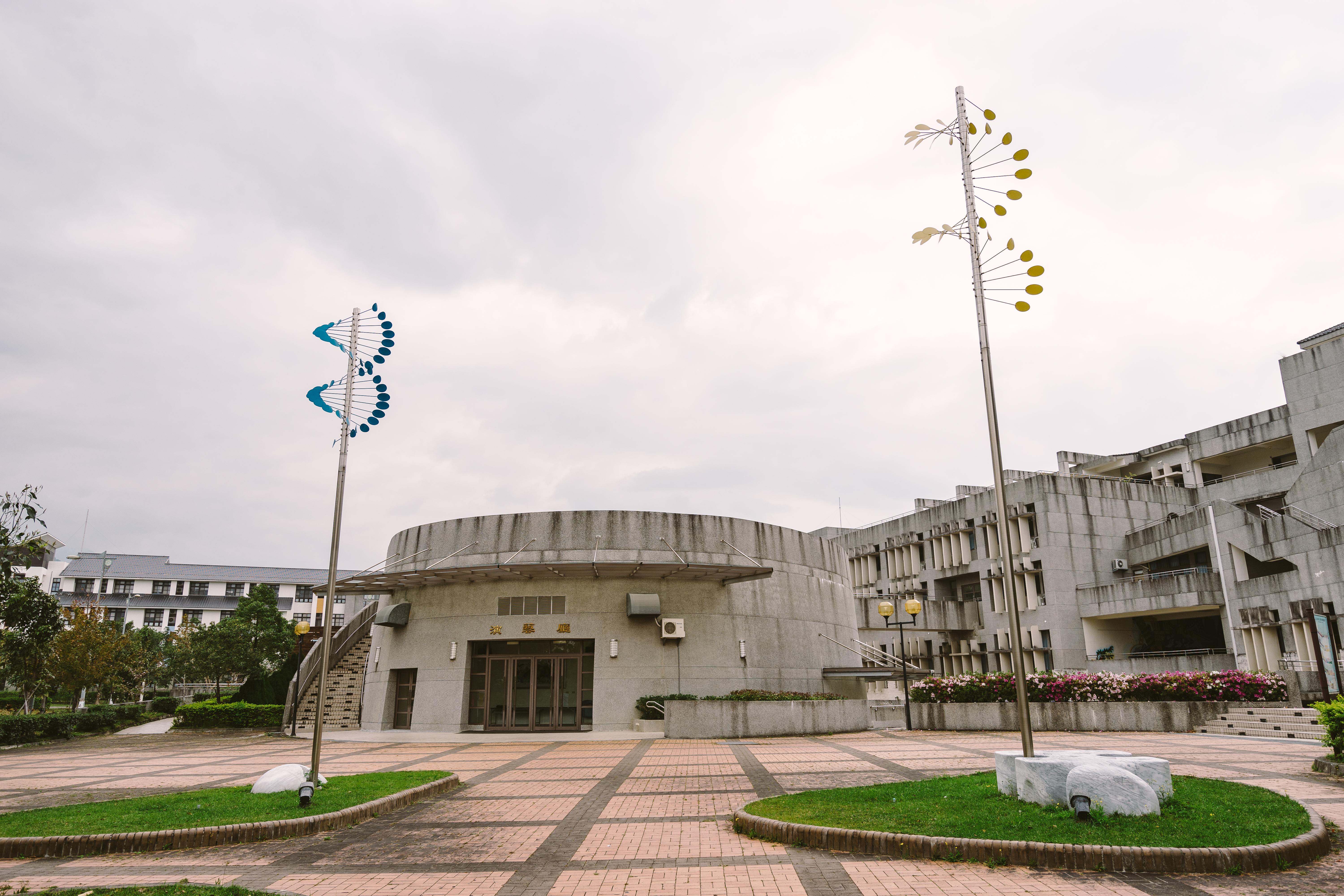 Art Performance Center, National Taitung University.